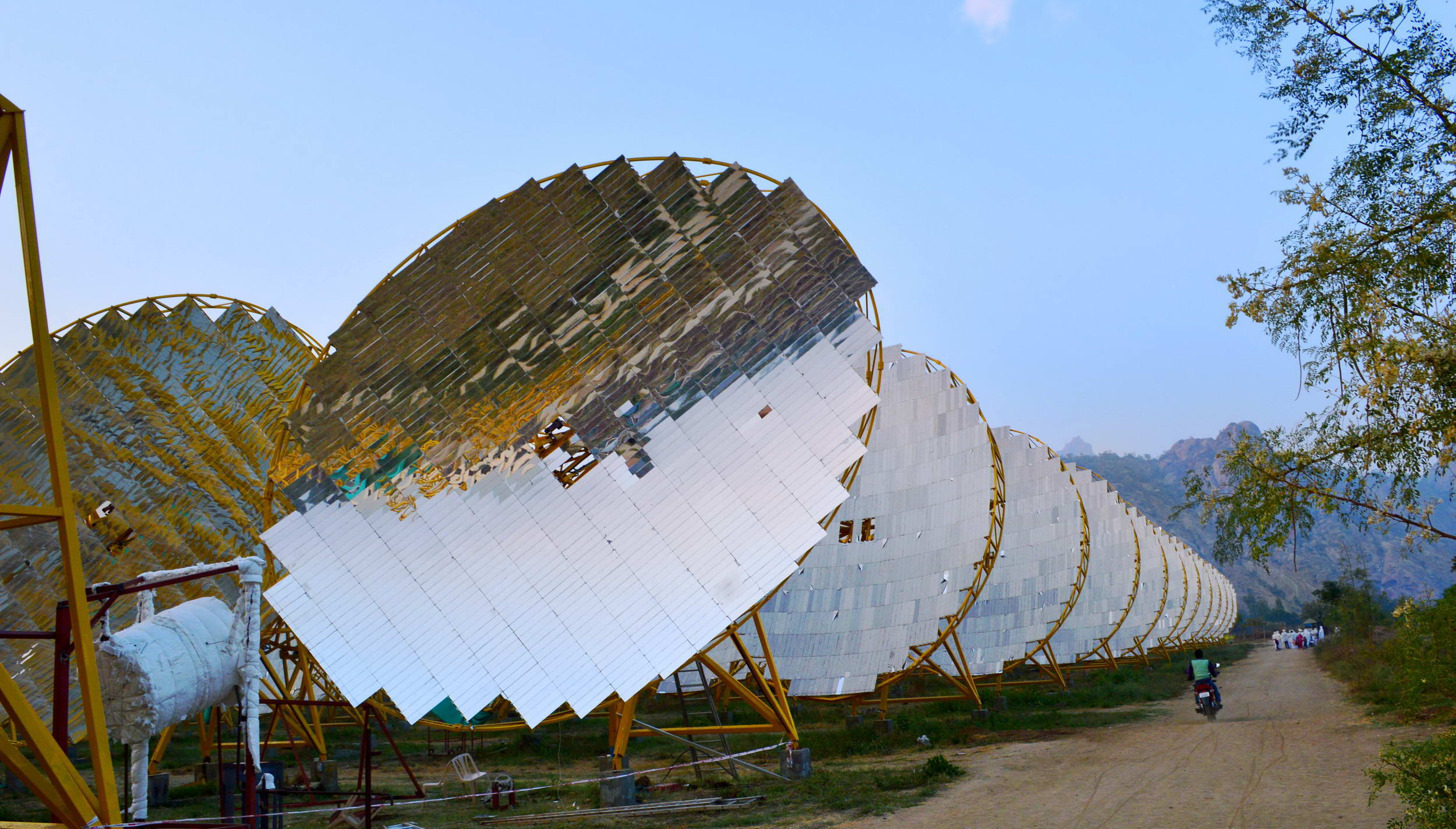 India One Solar Thermal Power Plant These photos were taken while construction. Situated at: Aburoad, Rajasthan, India Website